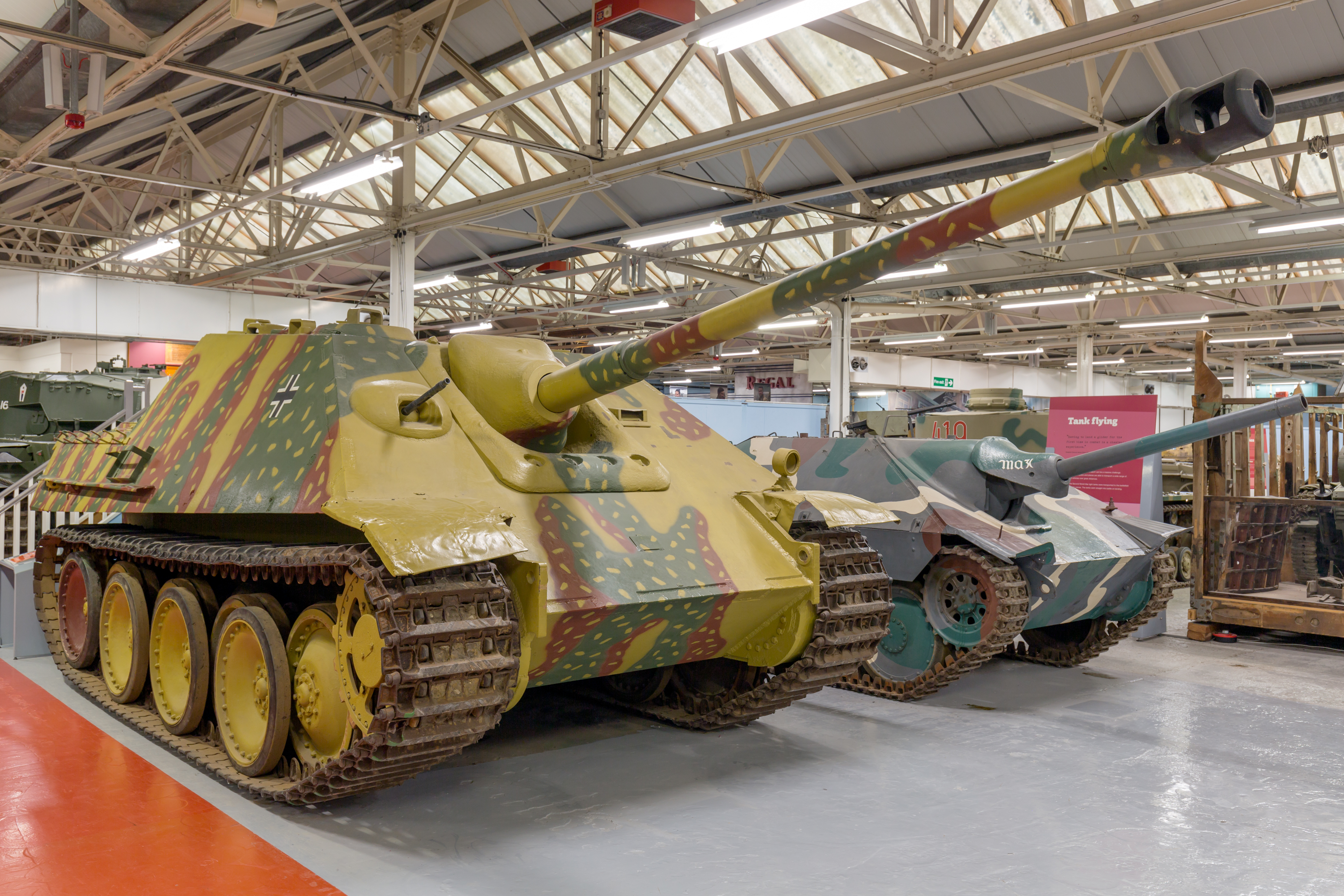 Bovington Tank Museum: Jagdpanther